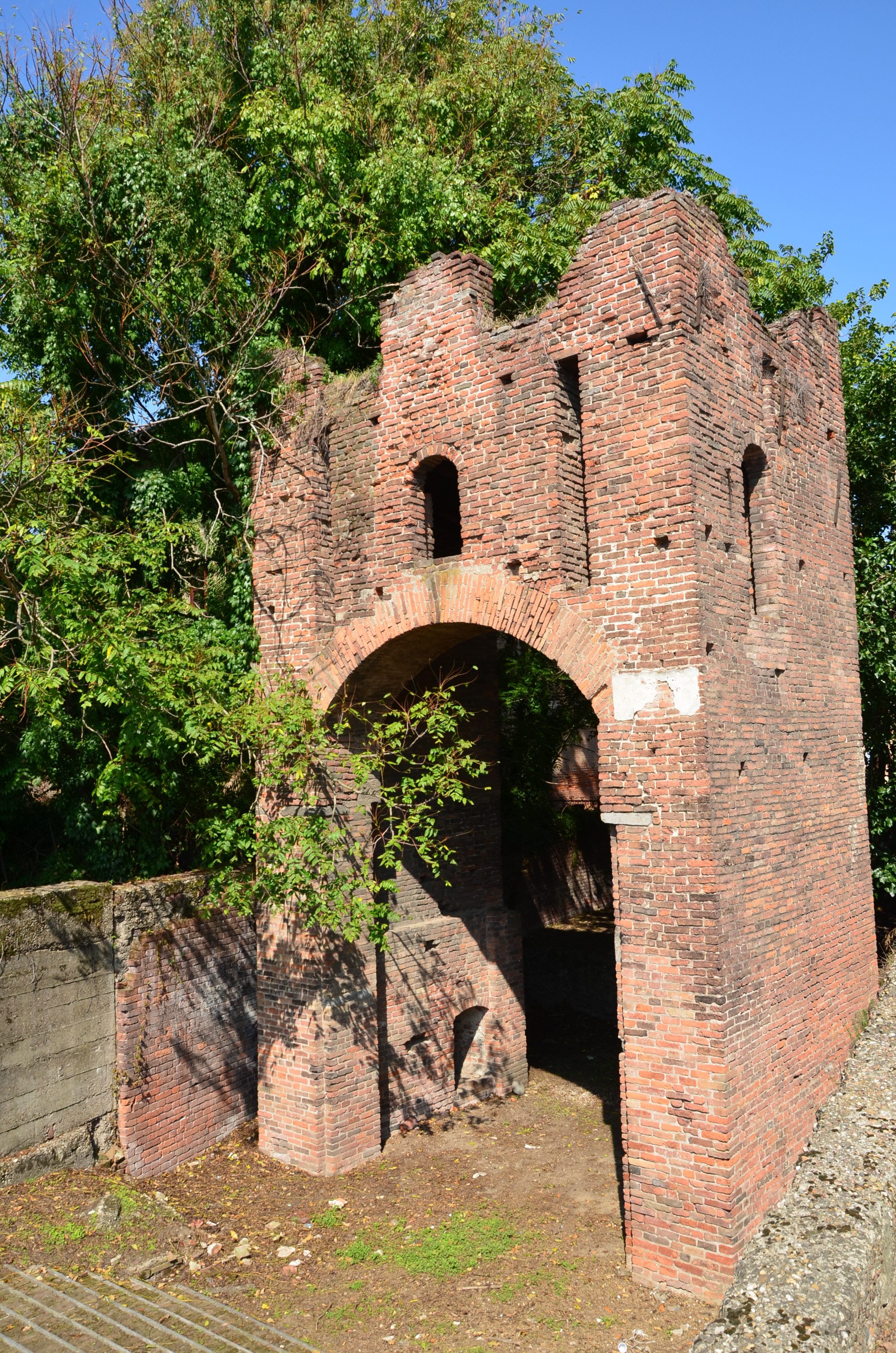 This is a photo of a monument which is part of cultural heritage of Italy.